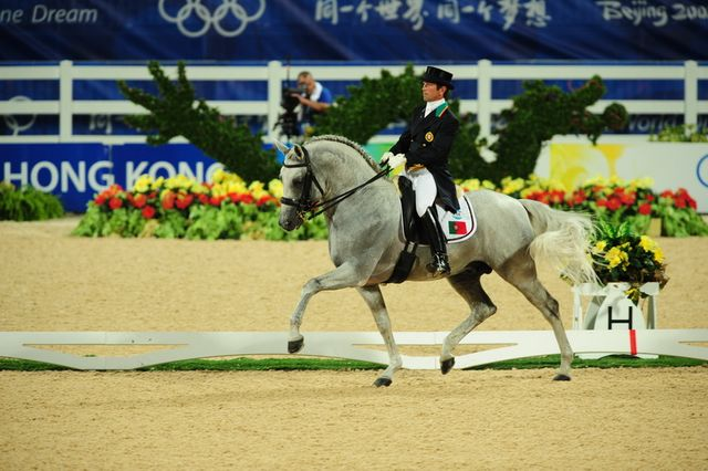 Carlos Pinto et Notavel Olympic Games Pekin 2008